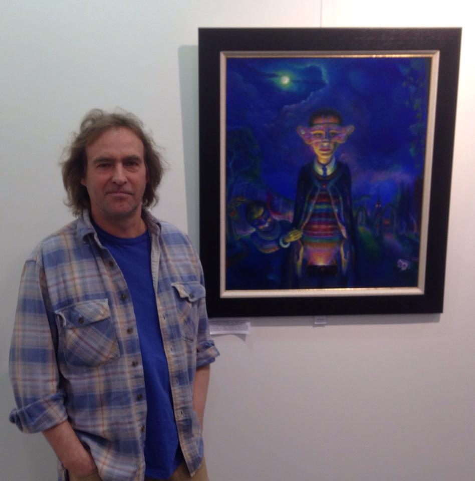 Portrait of the artist Mark Burrell